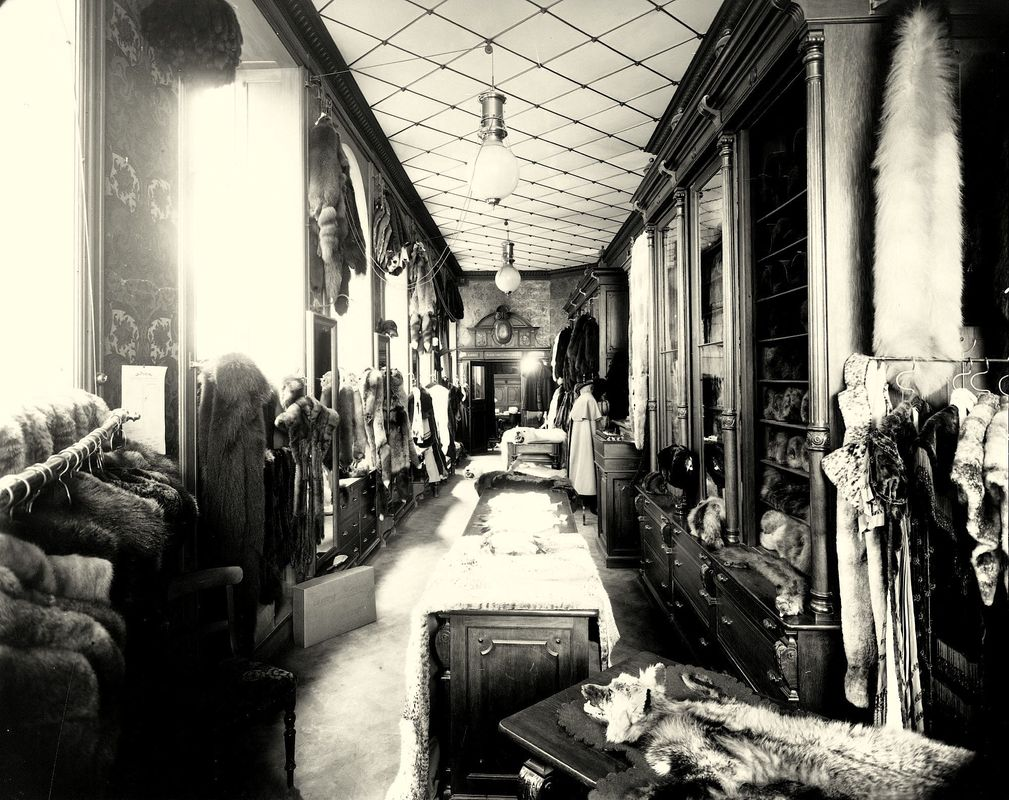 The furier A. C. Bang at Østergade 25 in Copenhagen, Denmark